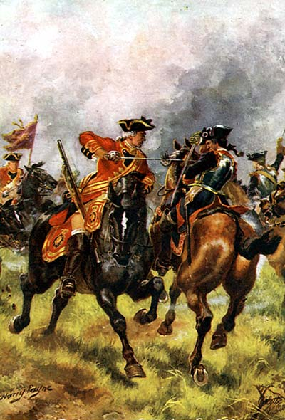 1st Troop of Horse Guards at the Battle of Dettingen, by Harry Payne (1858–1927).